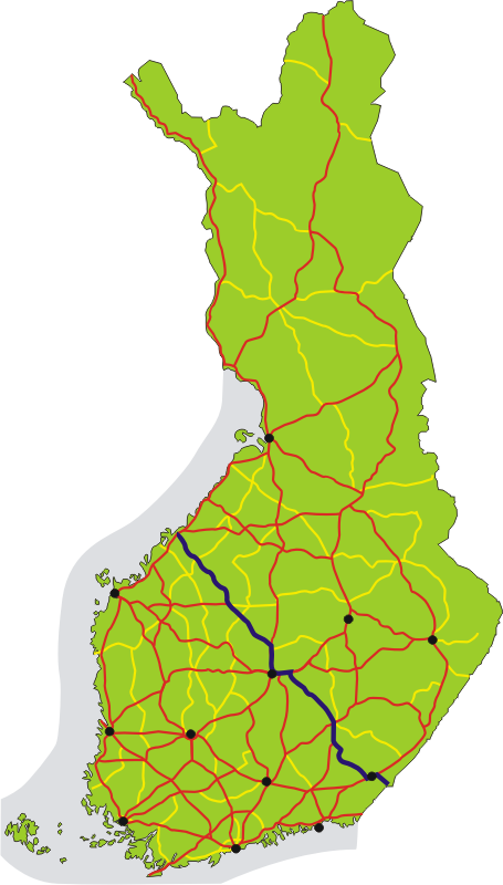 Map of the main road (highway) 13 in Finland, shown in dark blue. The other 1st class main roads (numbers 1–29) are red, 2nd class main roads (numbers 40–98) yellow. Black dots show the 12 biggest urban areas.